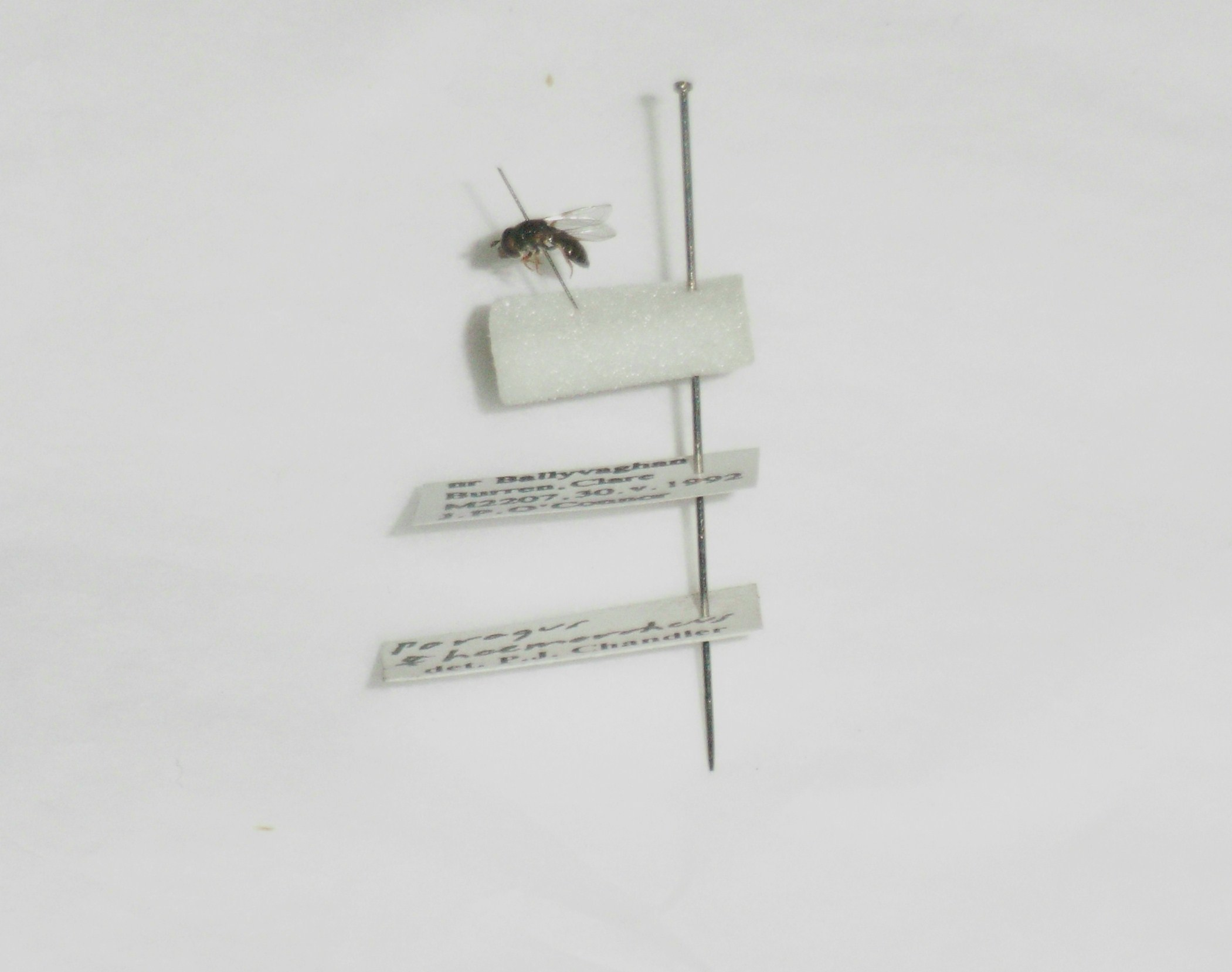 Staged a staged specimen of Paragus haemorrhous Syrphidae The specimen is transfixed with a very fine micro pin called a minuten slightly diagonally so as not to destroy the same feature on both sides. The ’stage’ is a thin strip of plastazote ( a high density foam) supported by a size 3 international or ‘continental-sized’ entomological pin called the ’stage-pin’at 90-degrees. The micro pin is pushed firmly into the foam stage. The stage is positioned not too close to the top of the pin where fingers would damage it. Below are first the data label which reads Co. Clare, Burren, Ballyvaughan, M2207 (map grid reference) 30.v.1992 (date on which the insect was collected), J.P. O'Connor (collector) and the determination label which reads Paragus haemorrhous det. P.J. Chandler Staging protects small/medium specimens while displaying as many features as possible. The stage-pin is strong and easy to hold or manipulate when moving the specimen and the stage absorbs vibrations.